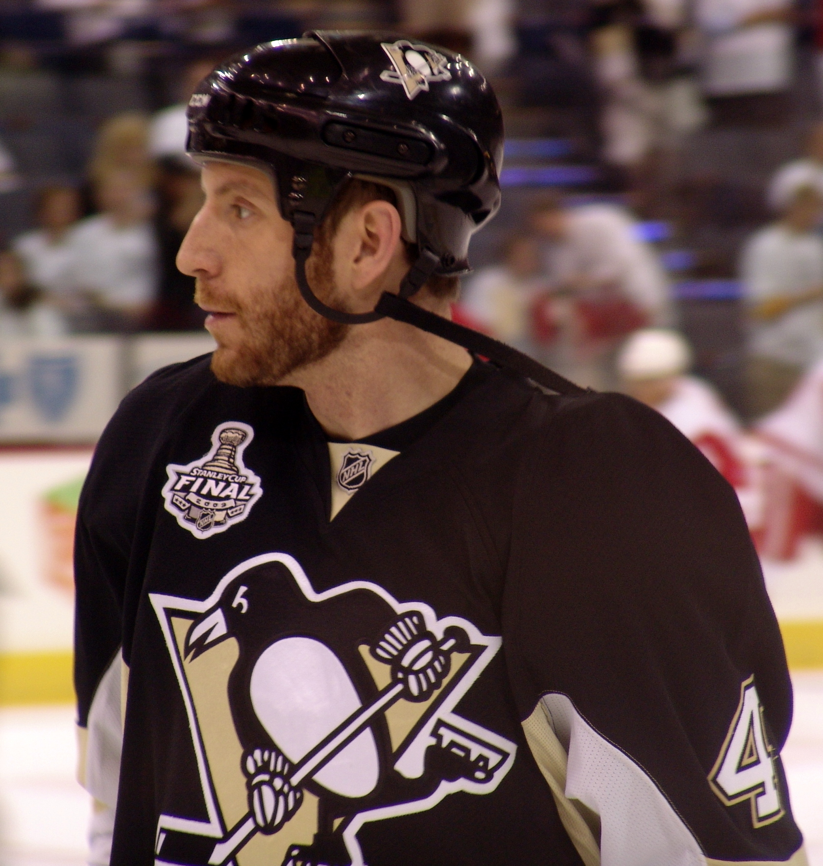 Rob Scuderi during the 2009 Stanley Cup Finals game 6 featuring the Pittsburgh Penguins and Detroit Red Wings at Mellon Arena in Pittsburgh, PA.